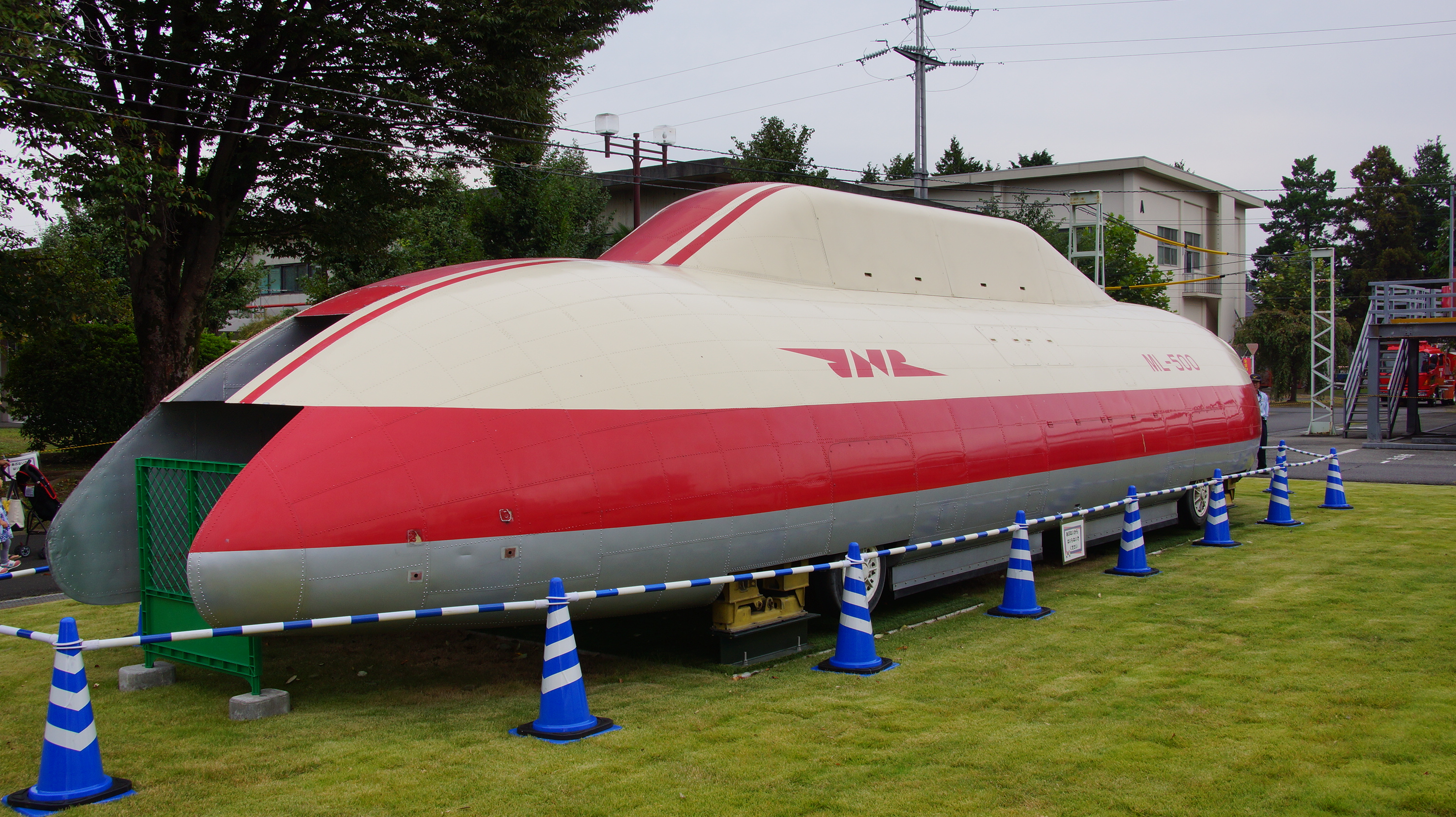 Experimental maglev car ML500 preserved at the RTRI facility in Kokubunji, Tokyo